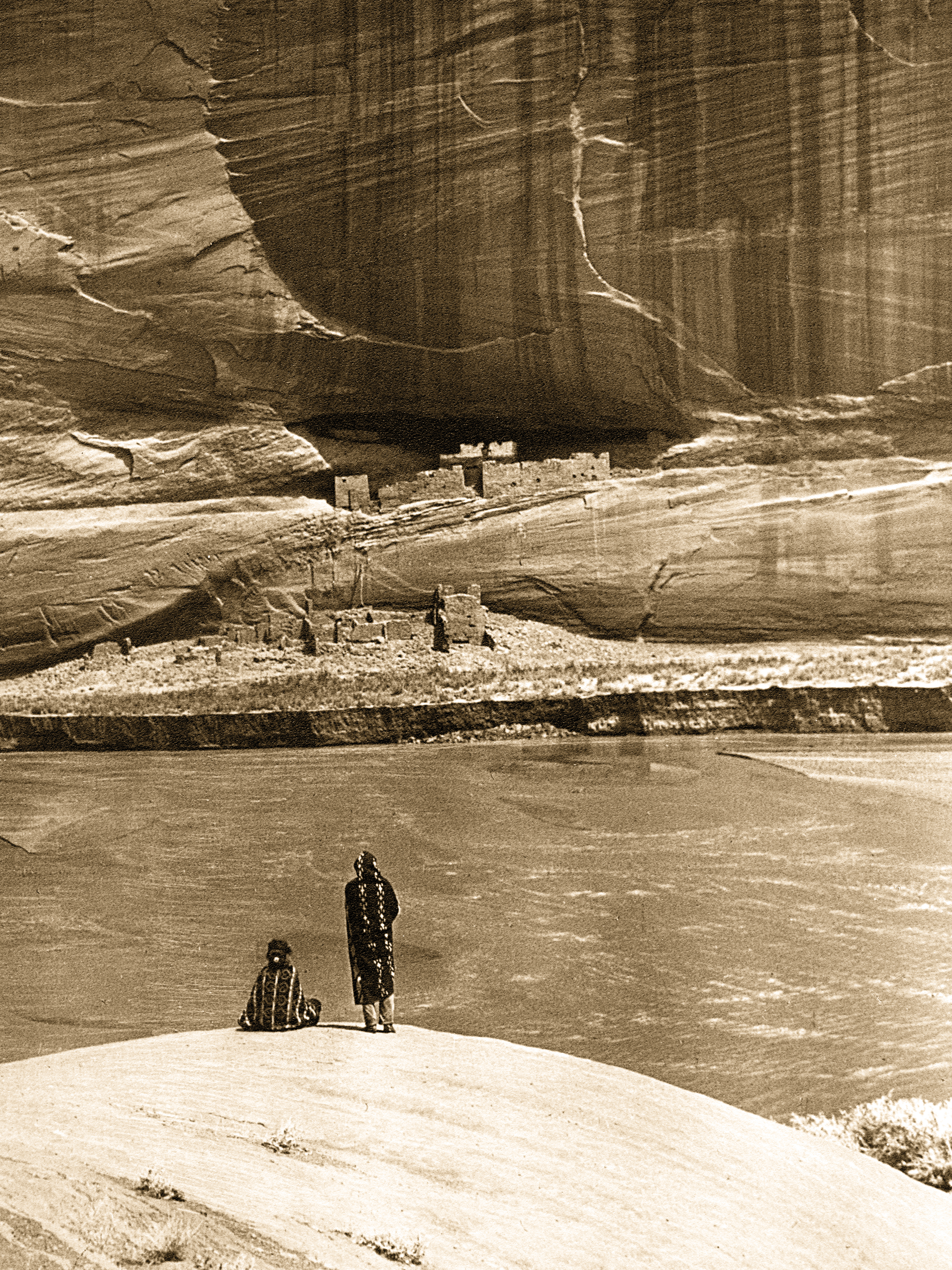 Two Navaho view the ruins of Casa Blanca in Canyon de Chelly